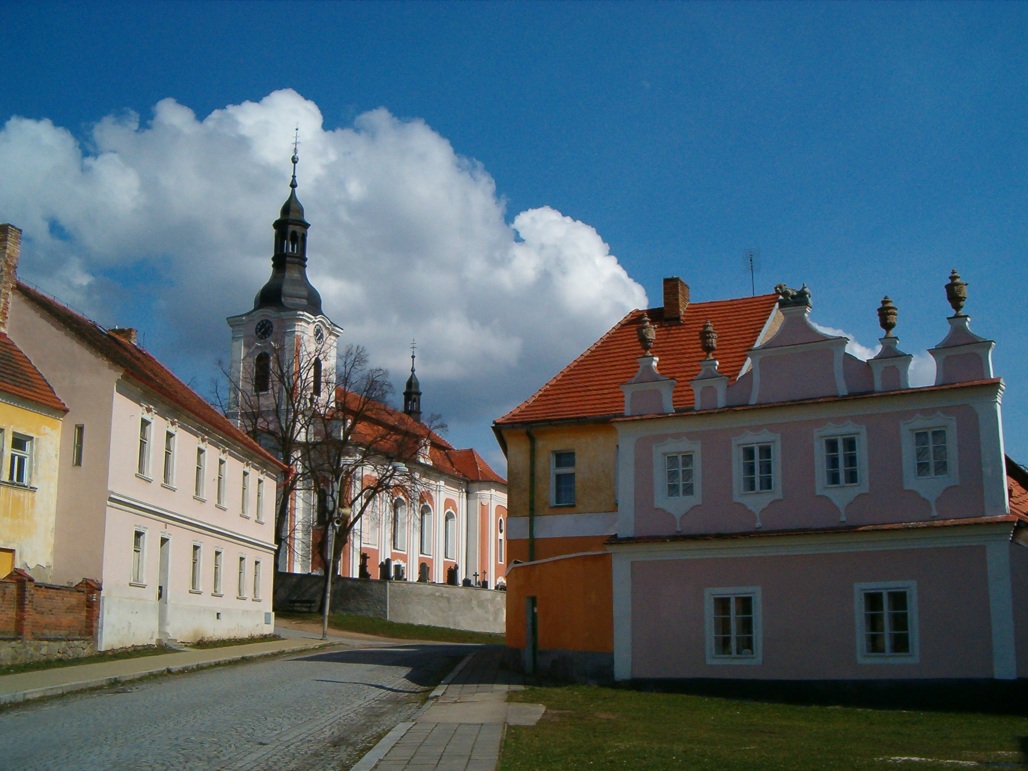 Churh of St. James in Sedlice (Strakonice District)